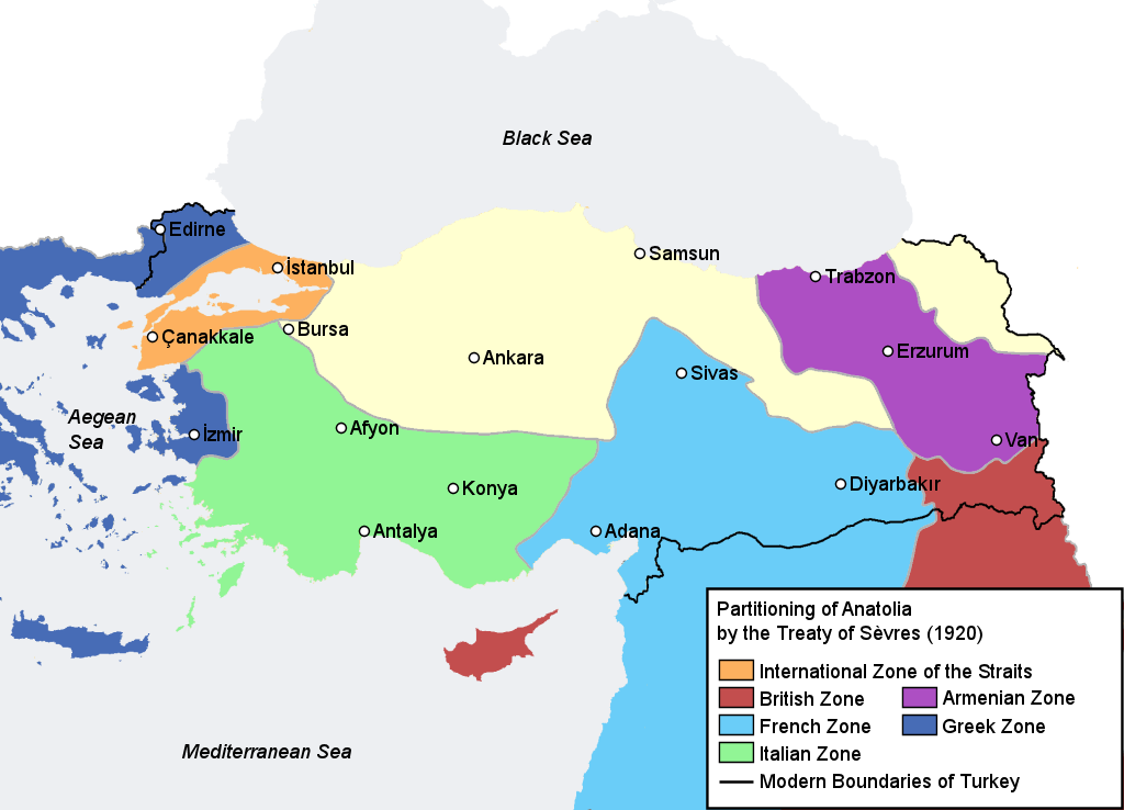 Map illustrating the partitioning of Anatolia according to the Treaty of Sèvres (1920) after World War I.